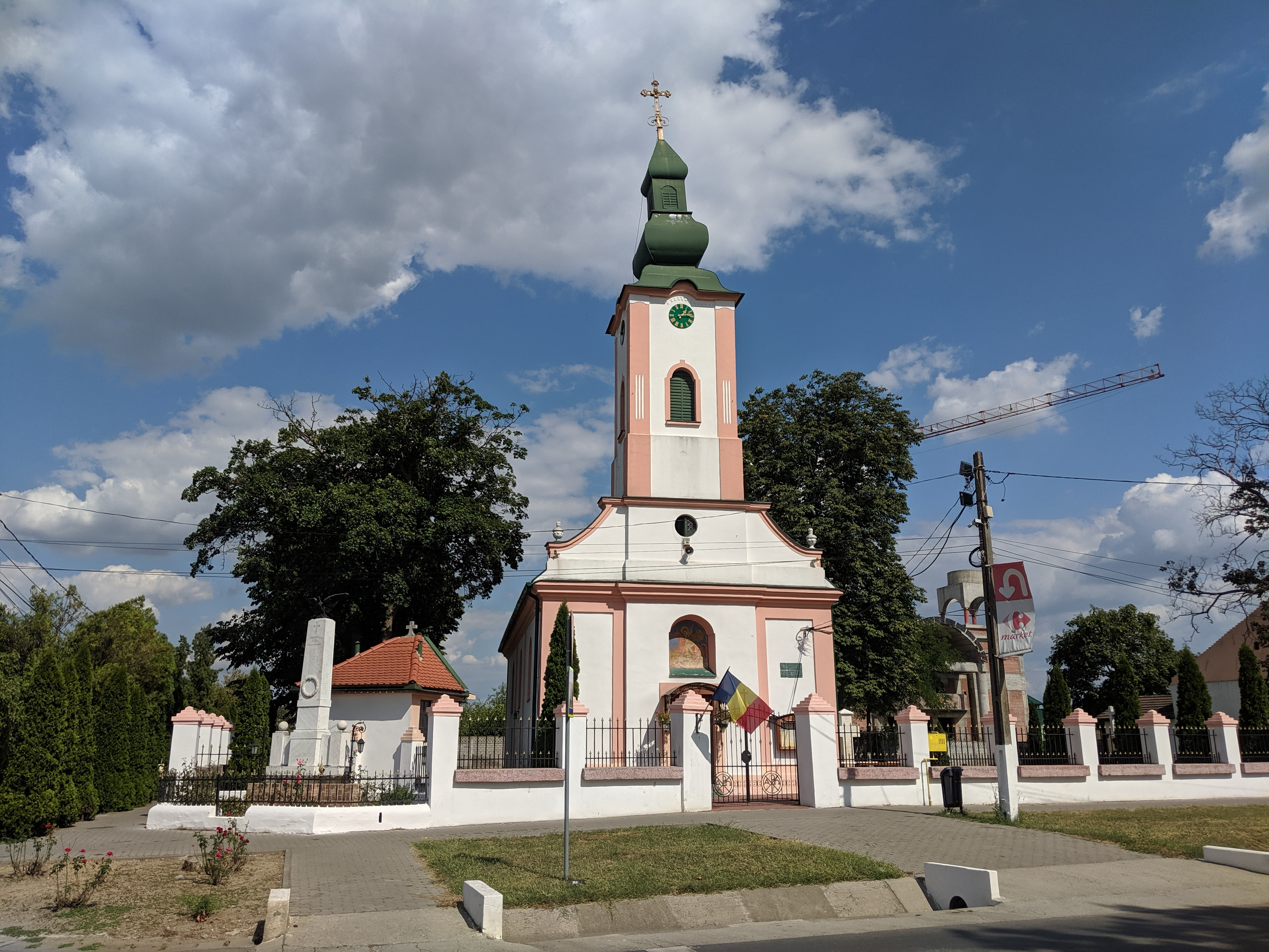 WW1 memorial in front of orthodox church Sf. Dimitrie in Giroc, Timis, Romania